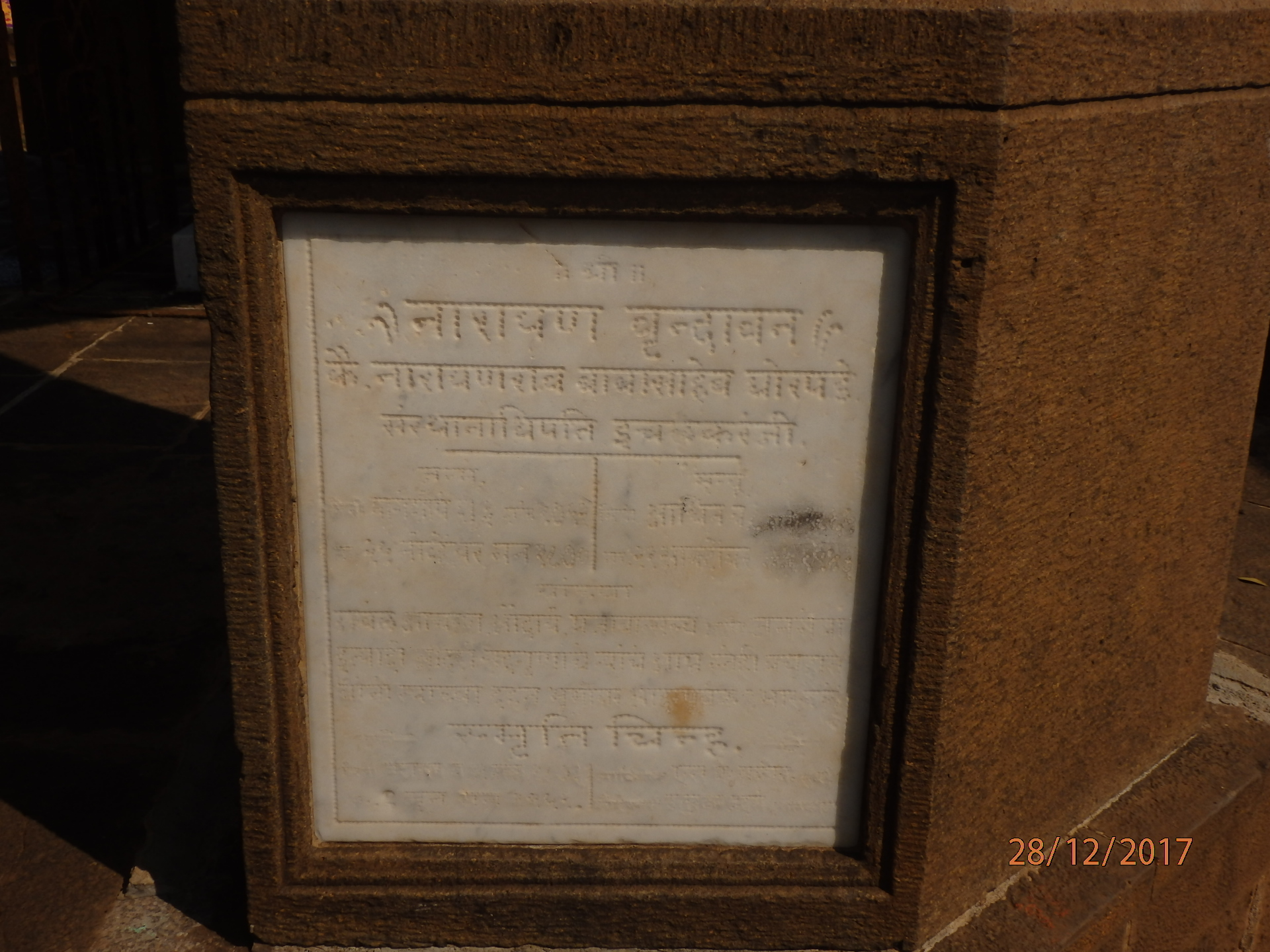 Memorial of Narayanrao Babasaheb Ghorpade, Ichalkaranji